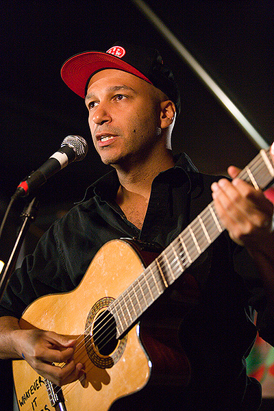 The Nightwatchman tocando su guitarra acustica "Whatever It Takes"